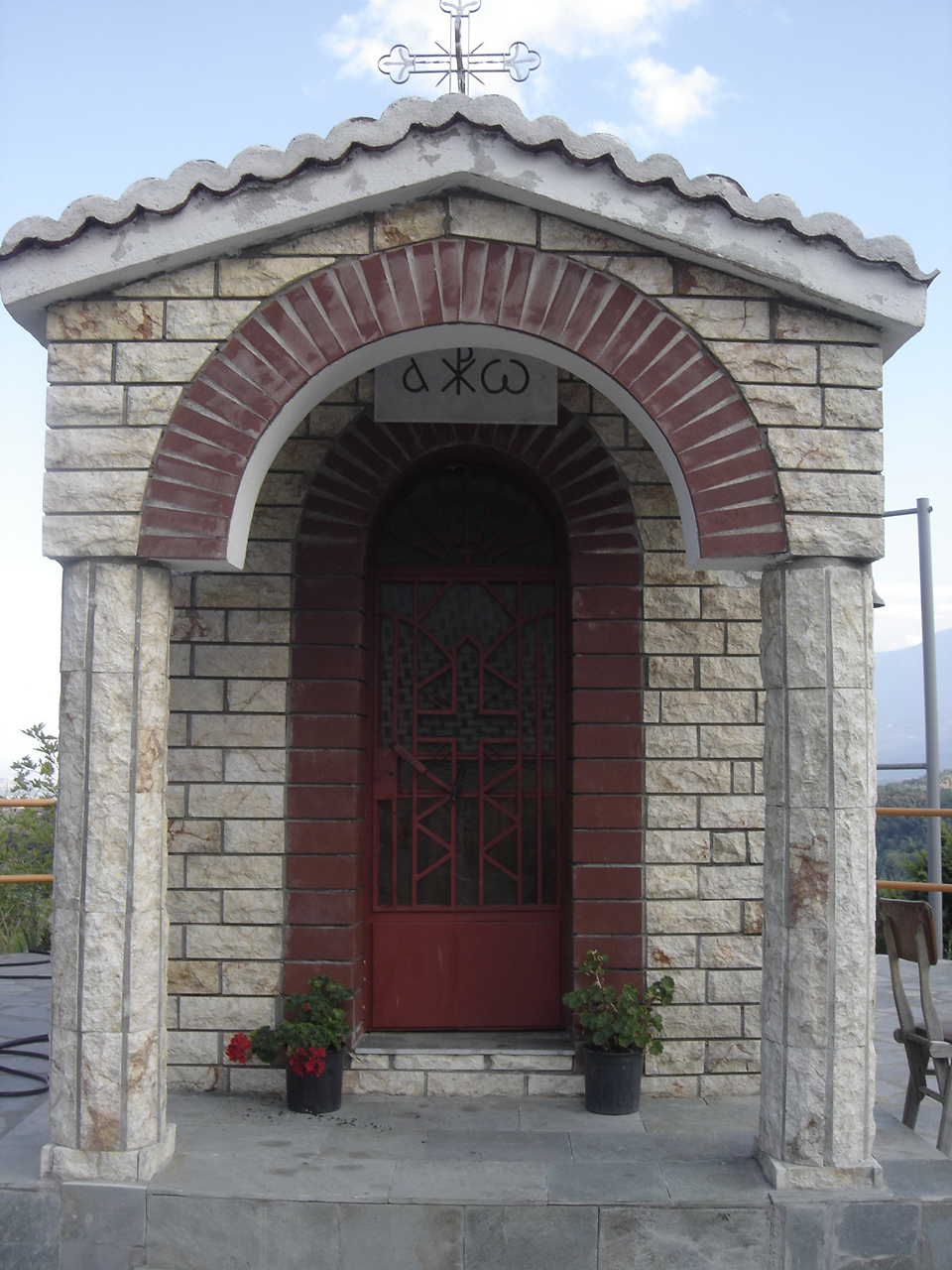 The Monastery of Prophet Helias near Ritini.